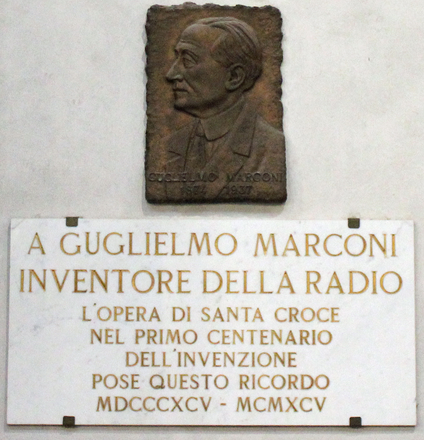 Memorial plate Guglielmo Marconi in Basilica Santa Croce Florence